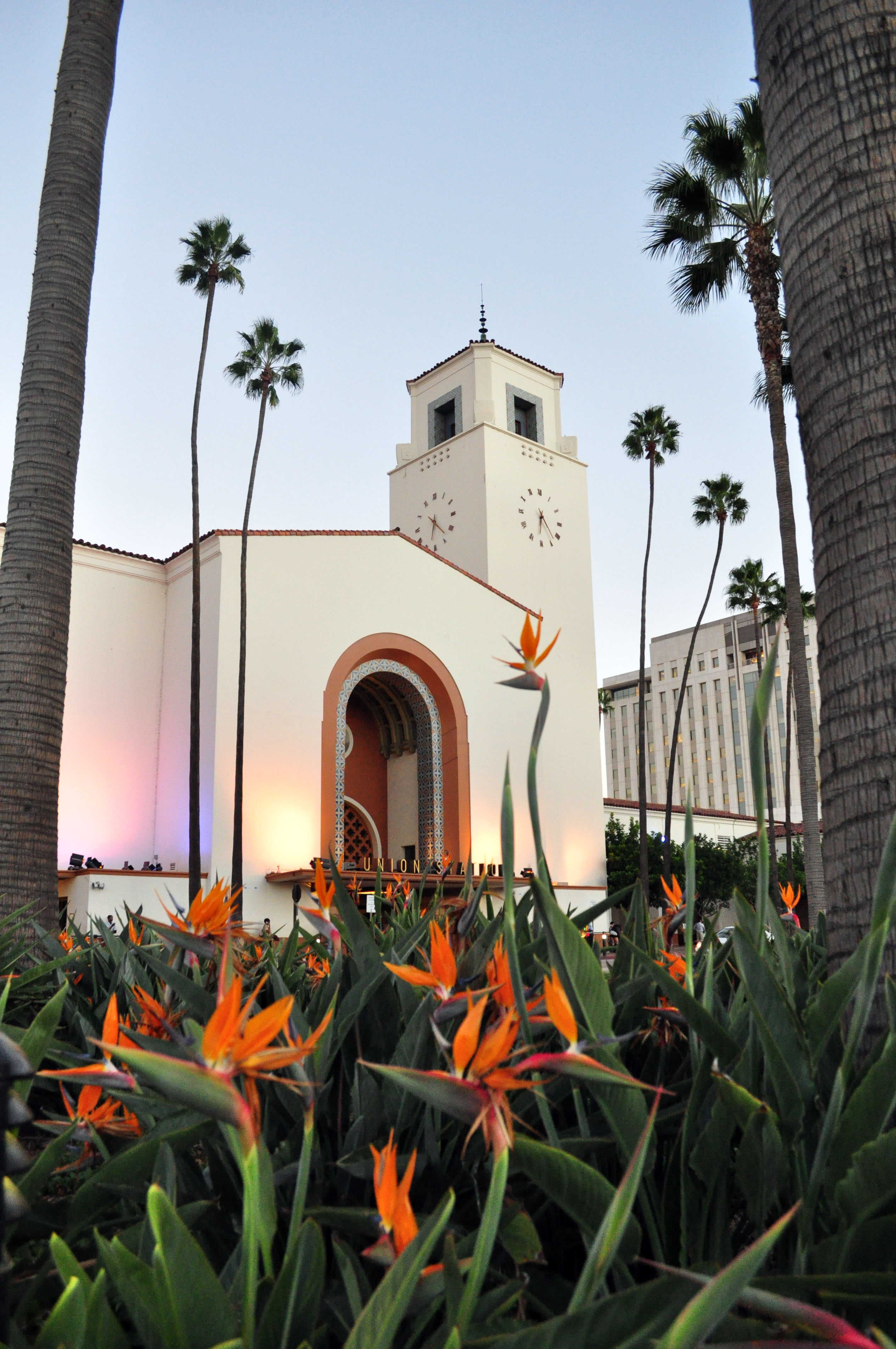 Los Angeles Union Passenger Terminal